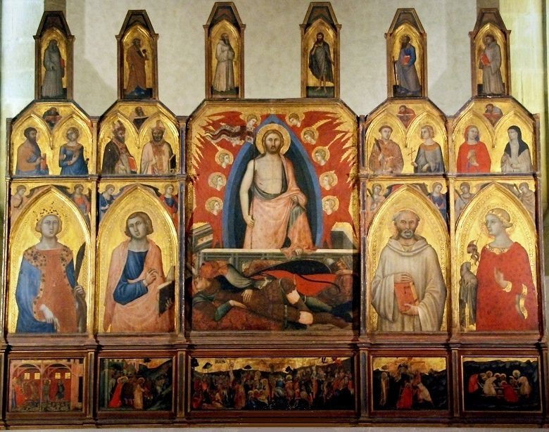 Niccolo di Segna.Resurrection Altarpiece. Sansepolcro Duomo. ca 1348.